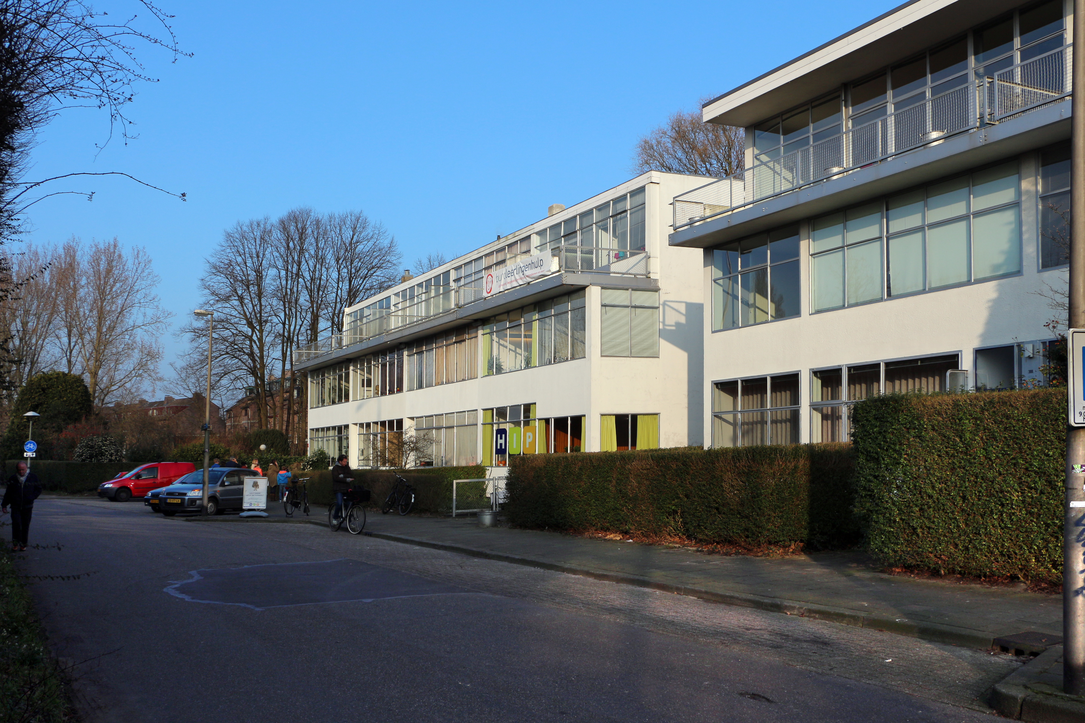 Rietveld